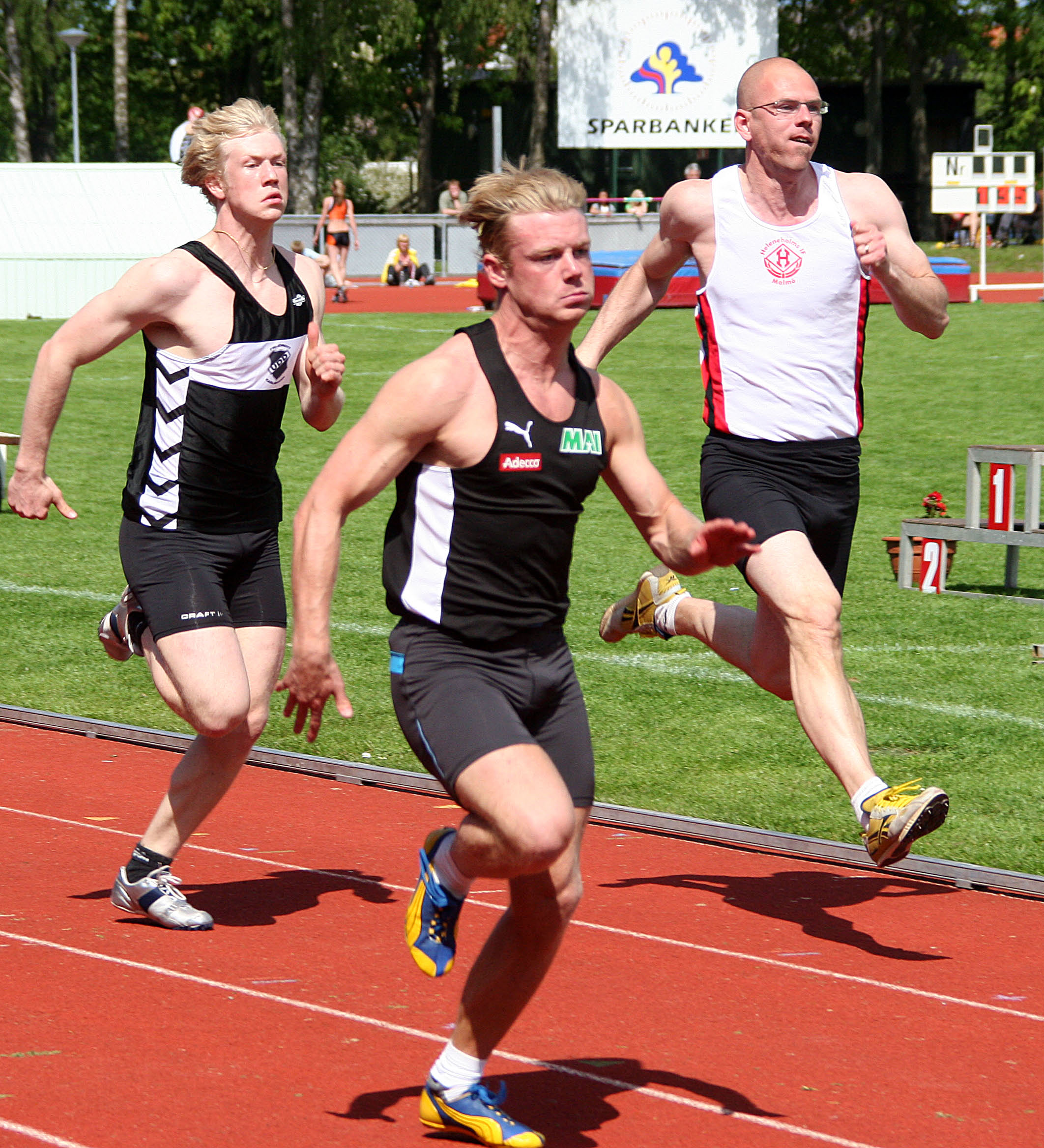 Swedish sprinter Daniel Persson, with the green MAI team logo, running in Eslöv, Sweden.